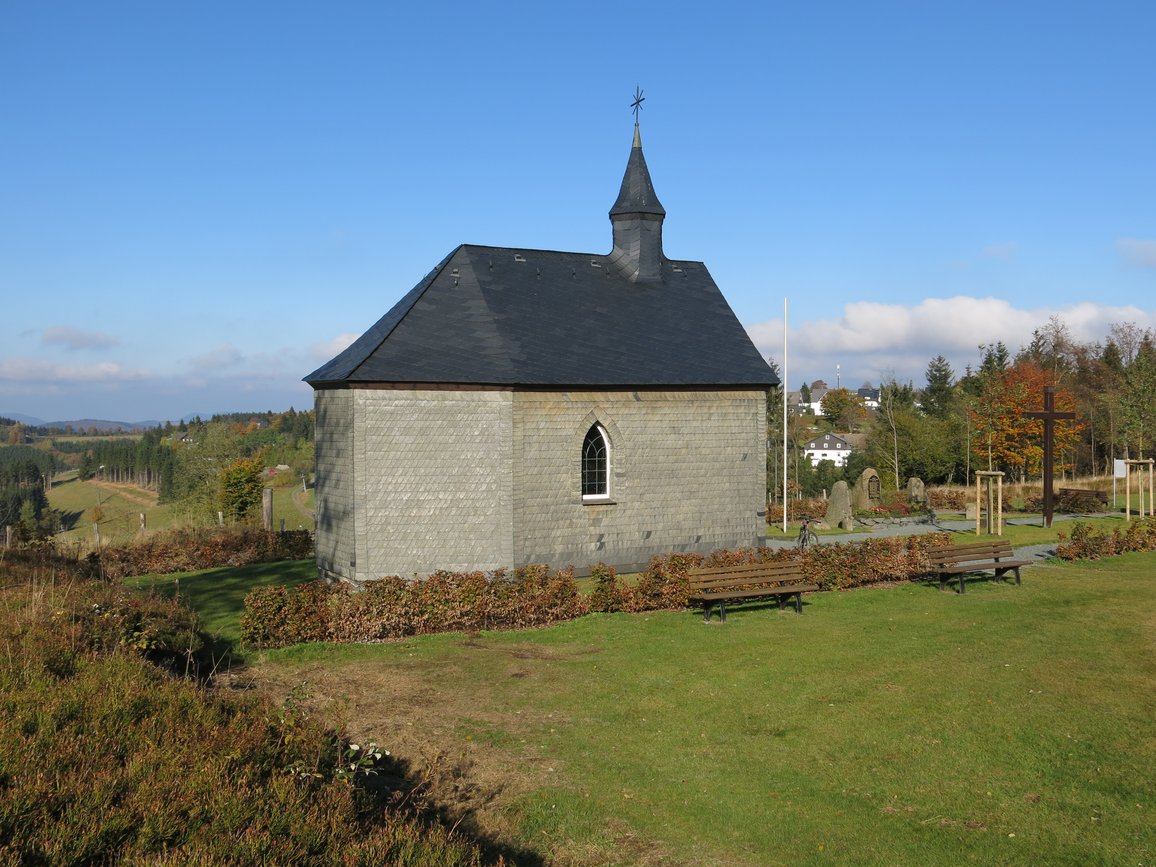 Chapel near Altastenberg, Sauerland